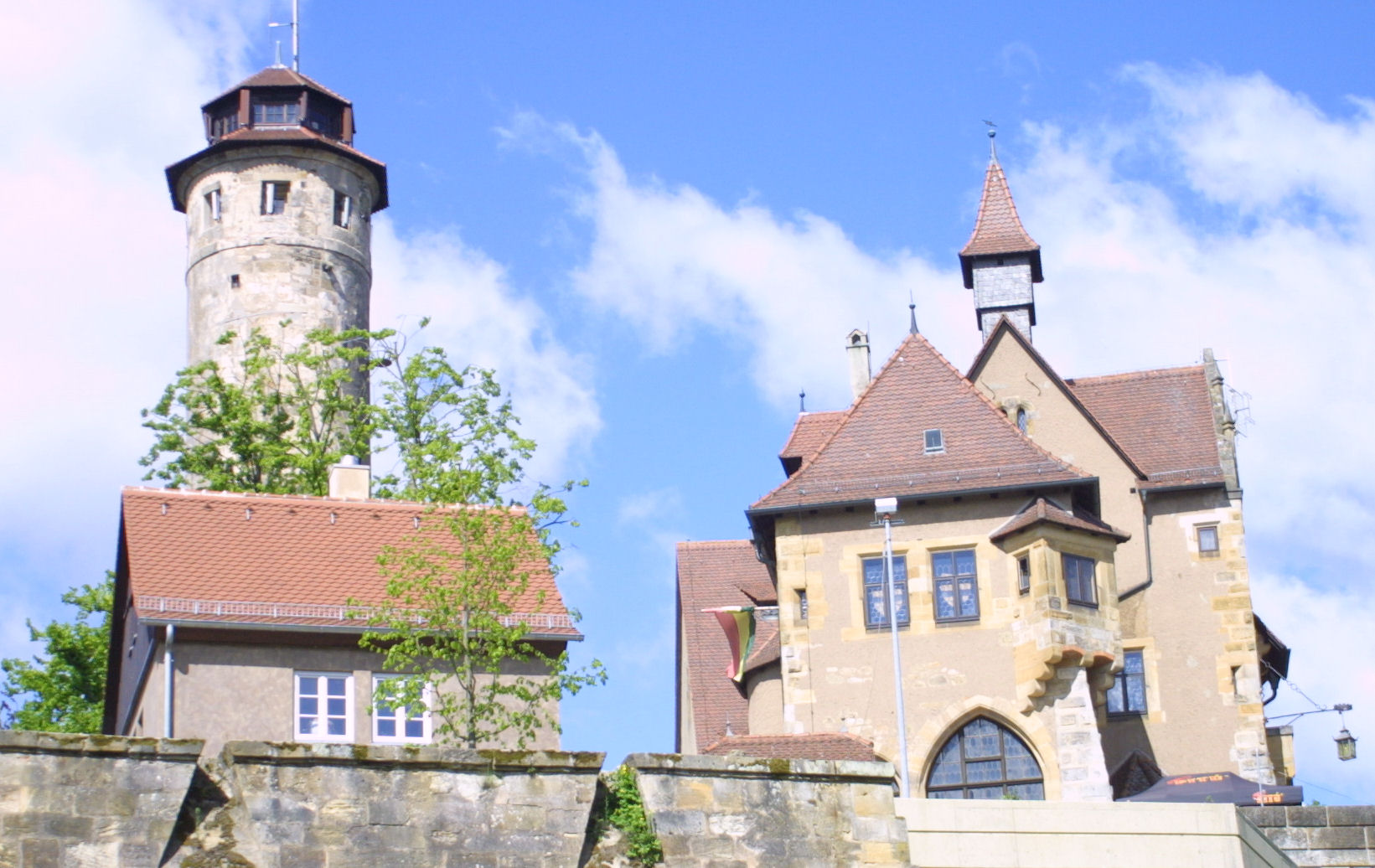 Altenburg (castle in Bamberg, Germany)